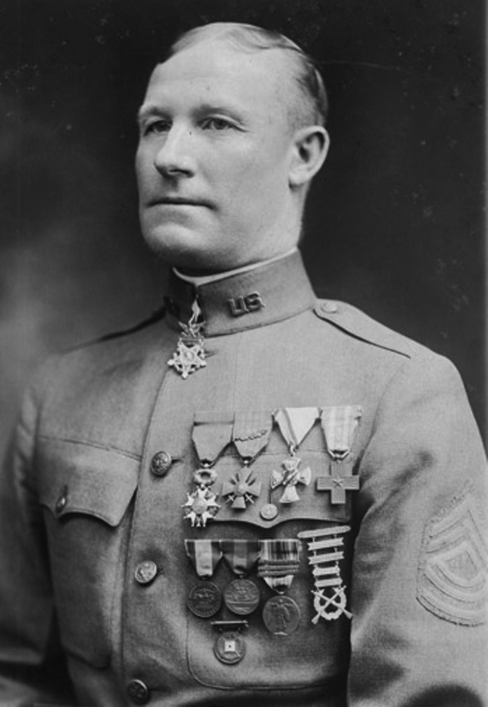 Master Sergeant Samuel Woodfill - WWI Medal of Honor recipient. Woodfill wears the Medal of Honor at his throat. Other orders/medals/qualification badges seen in the photographː First row - French Légion d'honneur in the degree of Chevalier, French Croix de guerre with bronze palm, Montenegrin Order of Prince Danilo I in the degree of Chevalier, Italian Croce al Merito di Guerra. Second row - Philippine Campaign Medal (medal's reverse side faces forward), Mexican Border Service Medal (medal's reverse side faces forward), World War I Victory Medal with St. Mihiel, Meuse-Argonne and Defensive Sector battle clasps, U.S. Army Expert Rifleman Badge with four requalification bars. Third row - U.S. Army Team Marksmanship Badge.